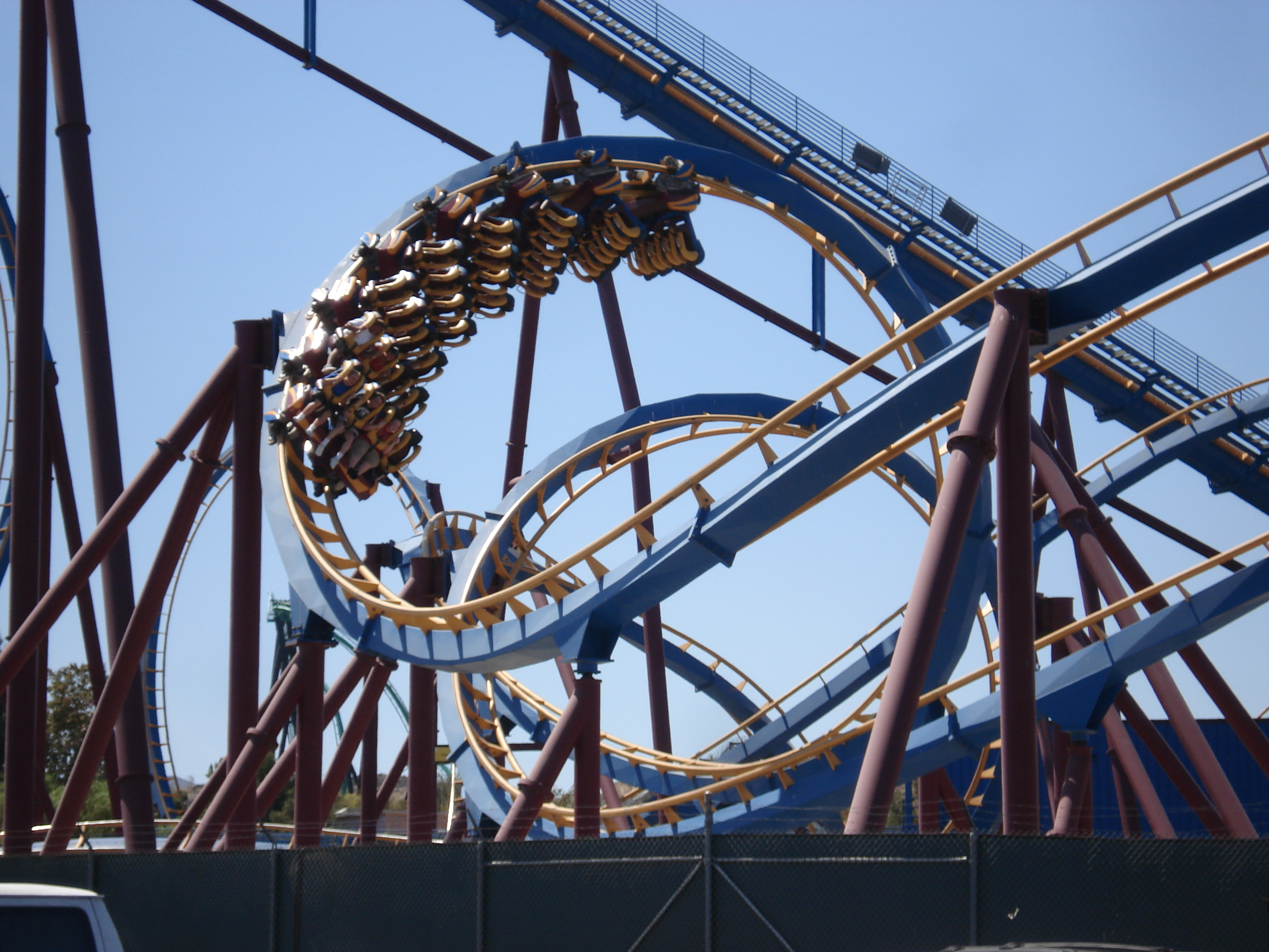 Scream! at Six Flags Magic Mountain